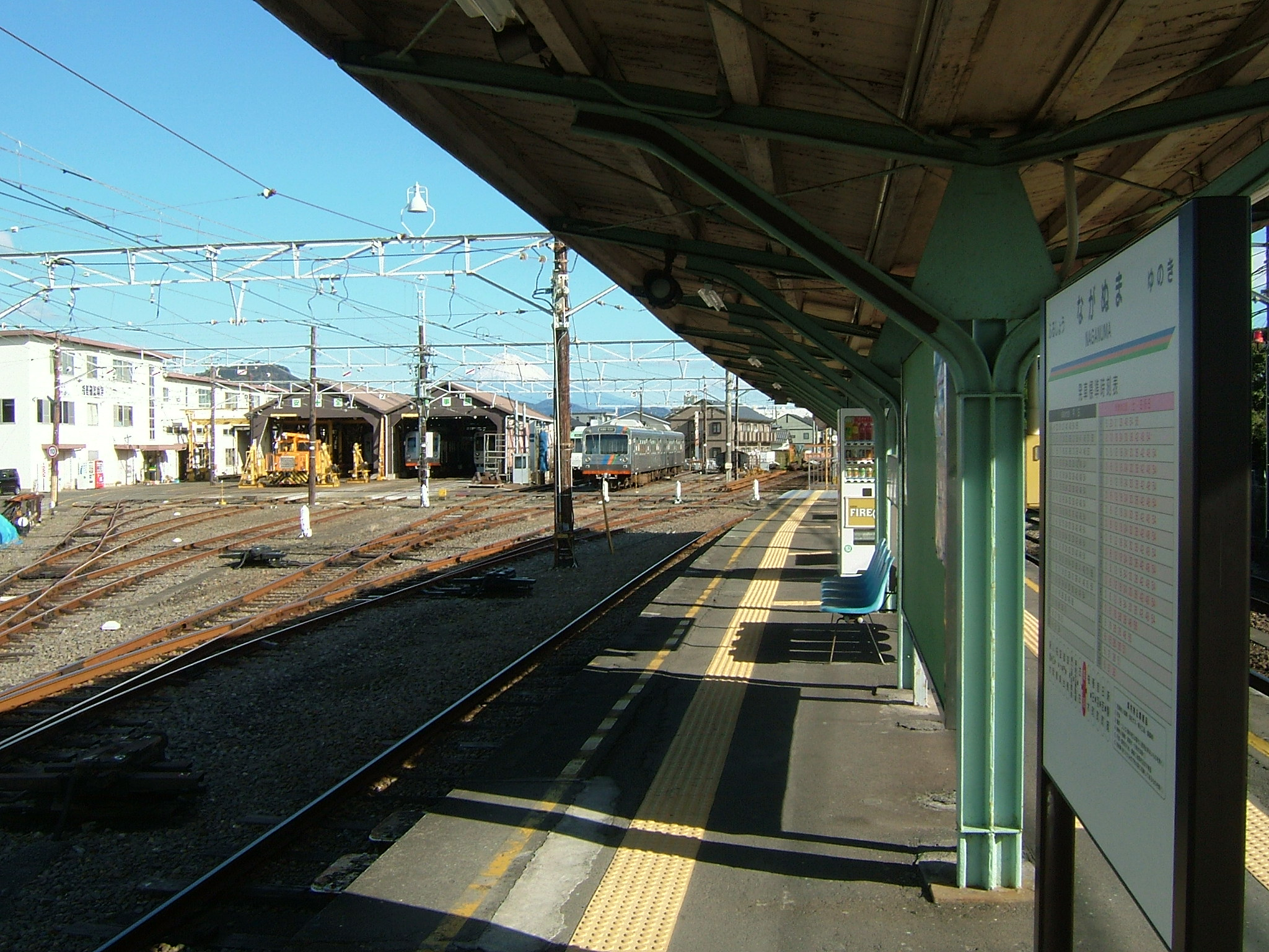 Shizuoka Railway Naganuma Station platform and Naganuma Workshop